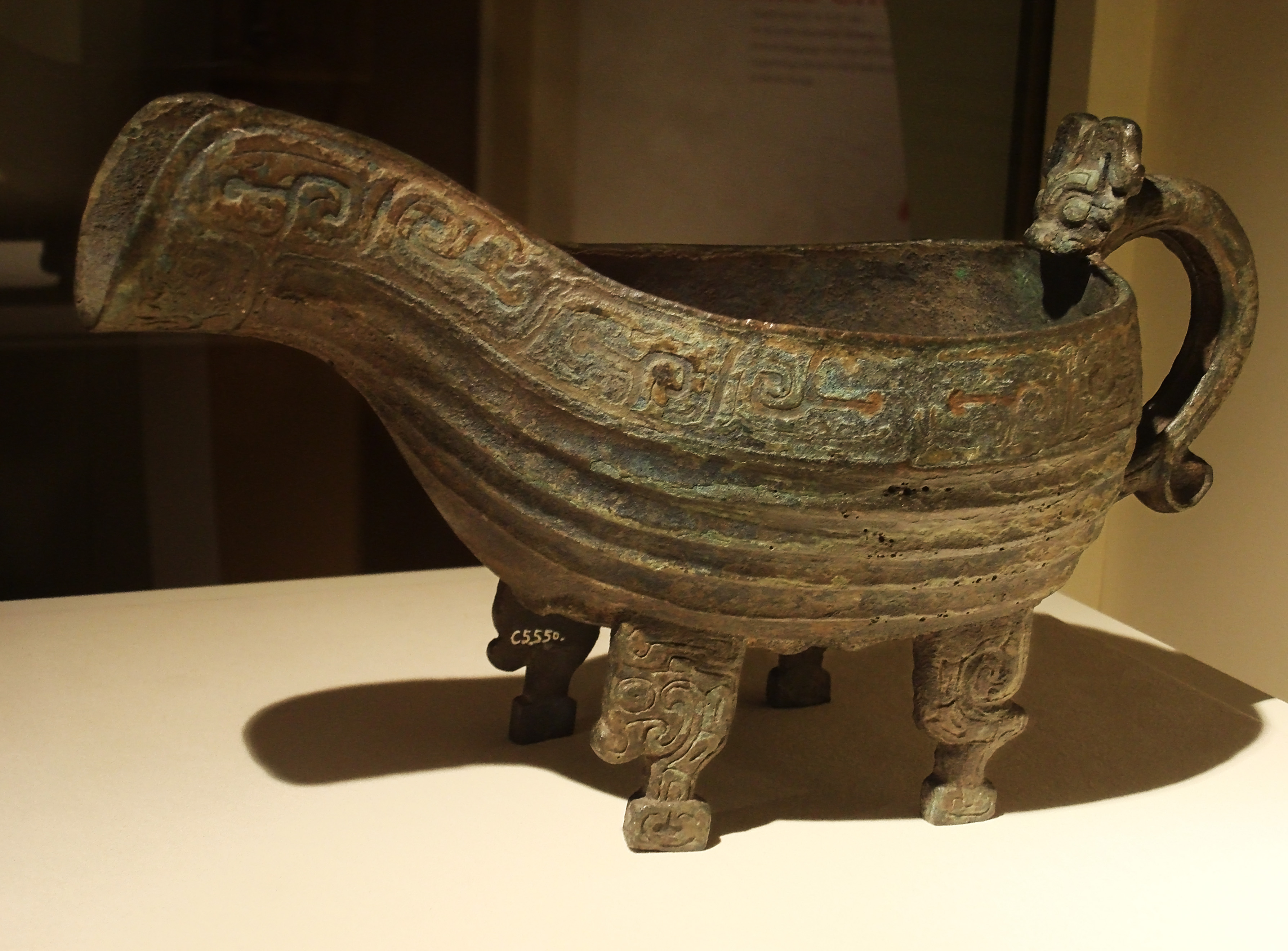 Exhibition "Treasures of China", Canadian Museum of Civilization, 2007. Eastern Zhou Dynasty Spring and Autumn Period (770 - 476 B.C.) Inscriptions inside the vessel state that a man from the State of Deng was given bronze from the Duke of Deng, which he used to create this vessel in commemoration of the occasion. With a rugged curved pattern on the body and hoof-like feet surrounded by coiled dragons, it was used to hold water for washing one's hands and face.